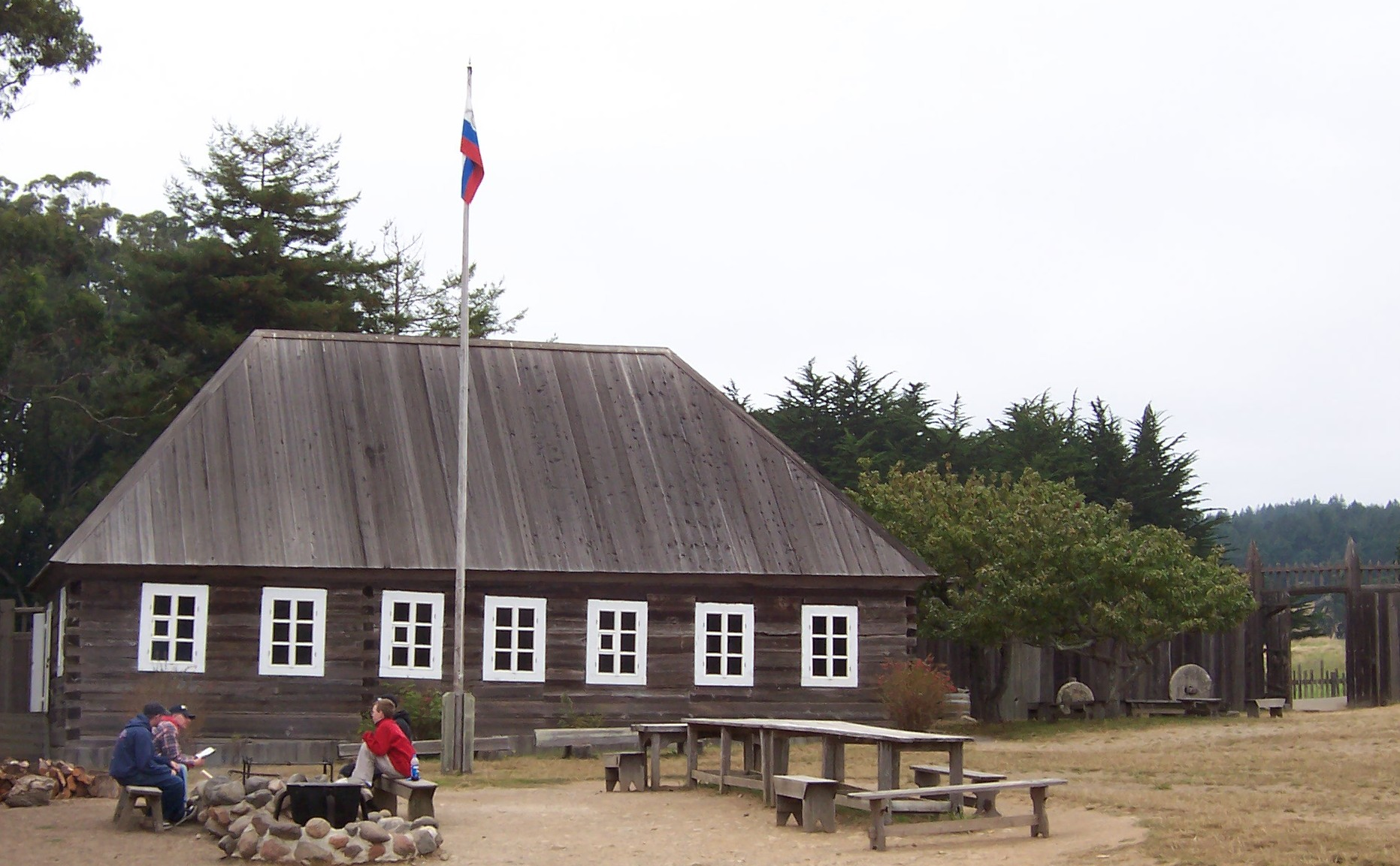 Fort Ross, Rotchev's House - the only original building on the site. California, USA. Fort Ross is the US National Historic Landmark of history of Russian colonization of America.